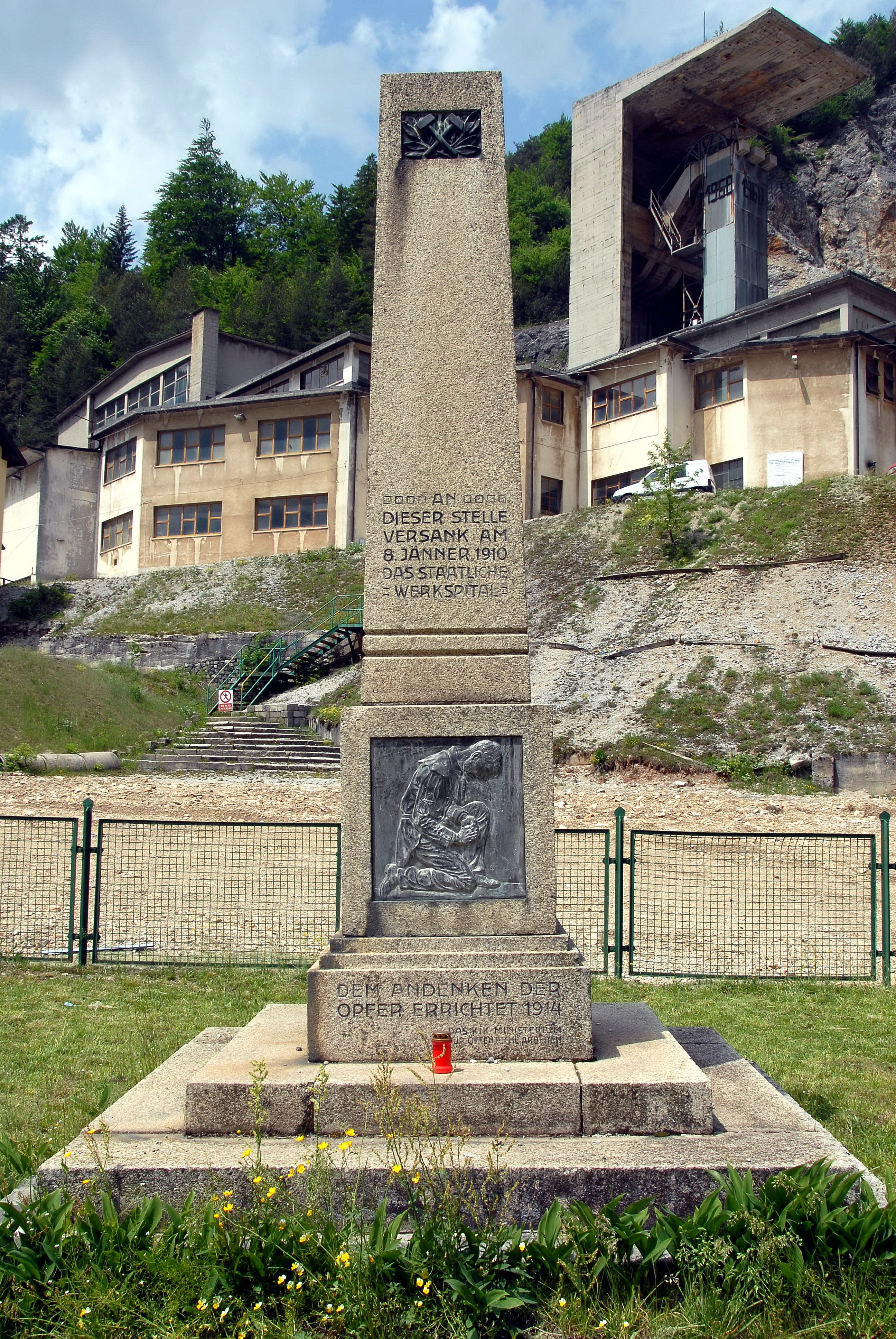 Memorial obelisk for the victims of the hospital catastrophe in 1910 at the locality Cave del Predil (Raibl) in the community Tarvisio, province of Udine, region Friuli-Venezia Giulia, Italy